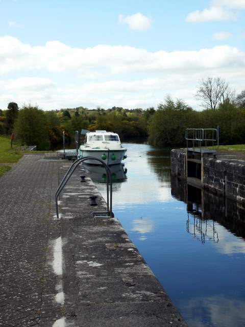 Lock 3 : Skellan Lock on the Shannon Erne Waterway Heading South East